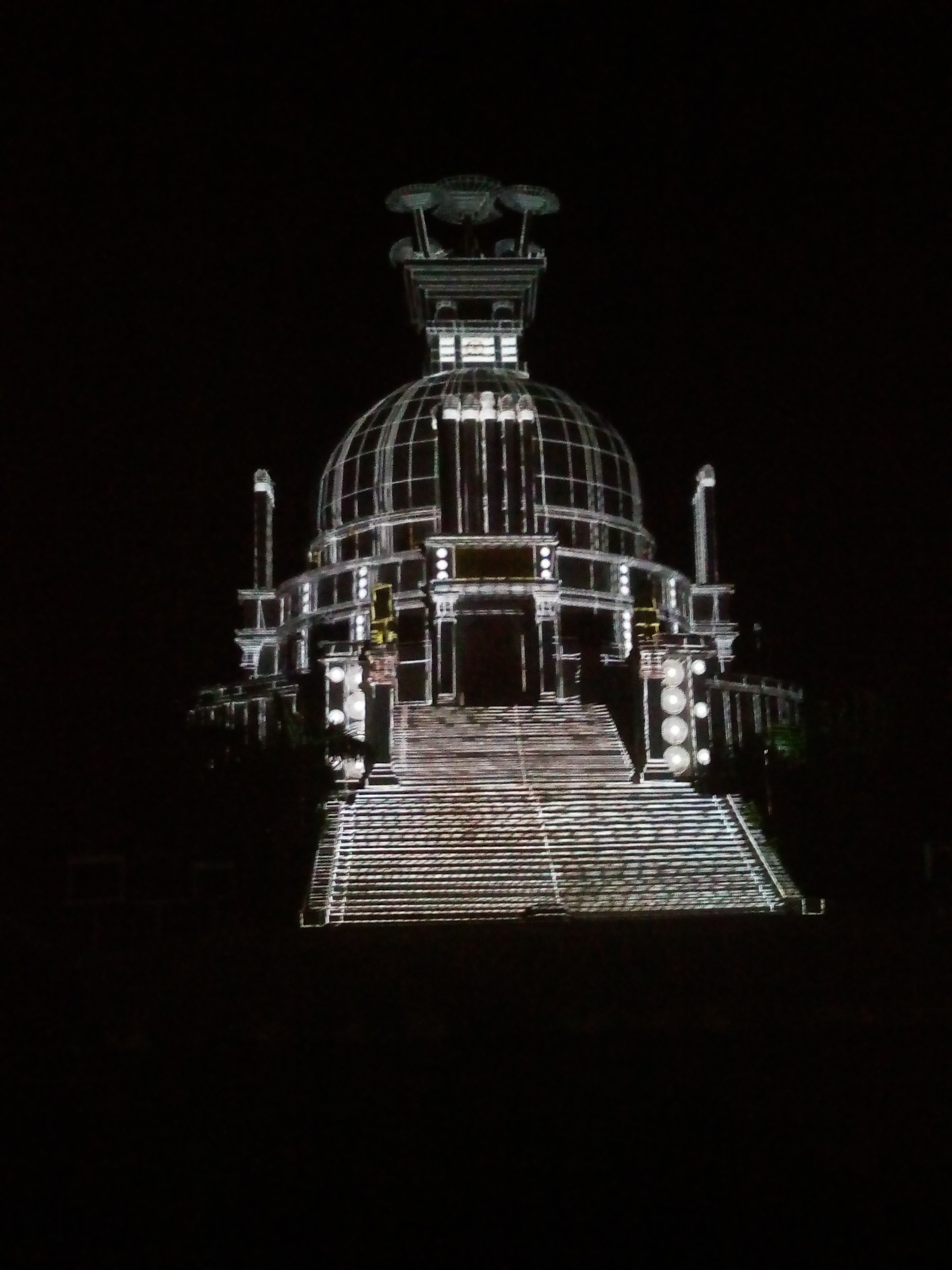 Light and sound show in Dhaulagiri